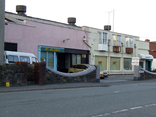 Film Set for 'Rownd A Rownd' This is a film set for a S4C ( the Welsh Channel 4 ) programme called 'Rownd A Rownd' which is a drama series made by Nant Films. As the set is alongside the road within the town, many people mistake the shops and telephone box as real.